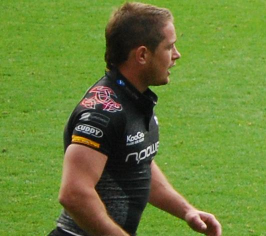 Ospreys vs Quins